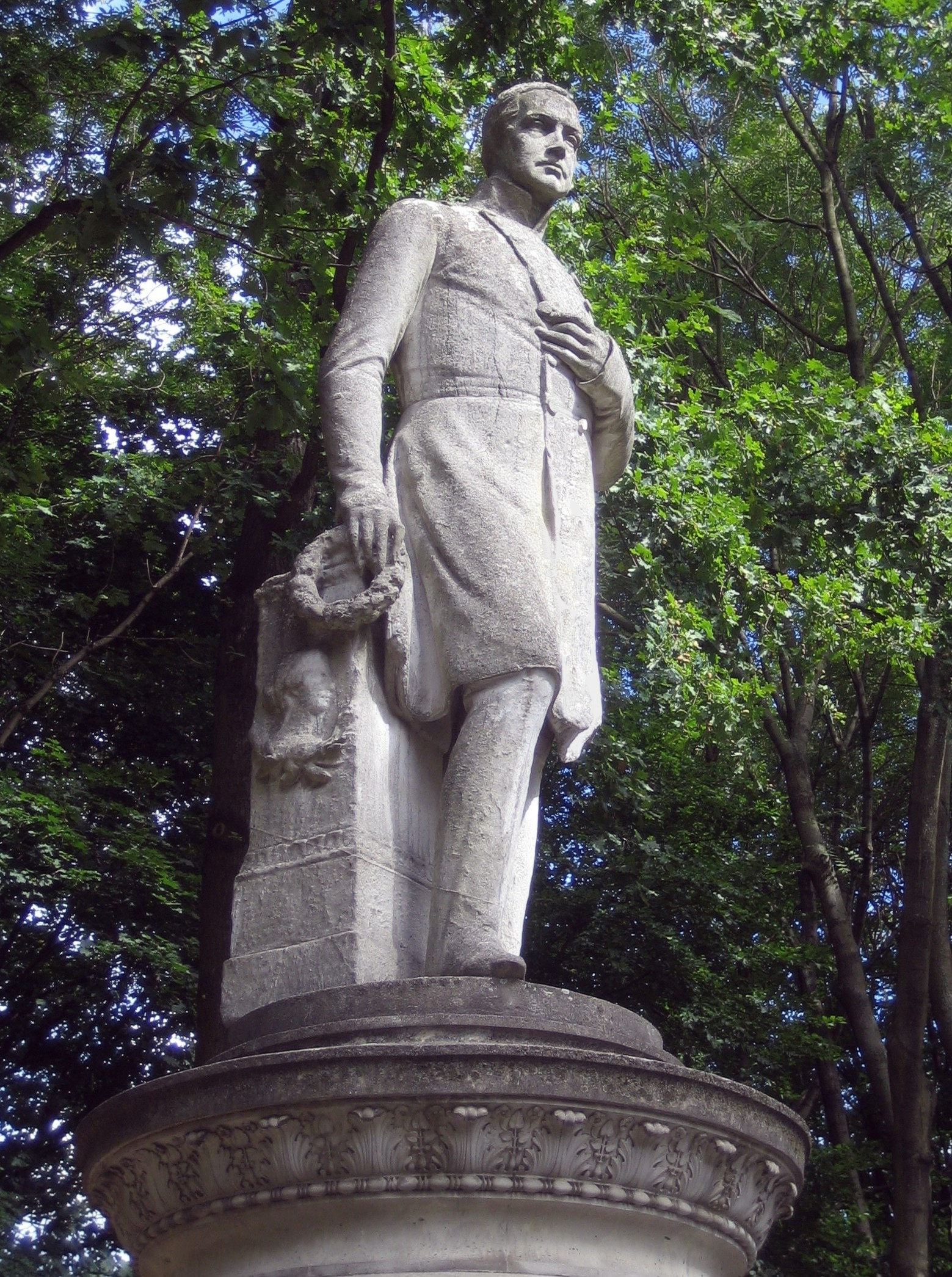 Memorial for Friedrich Wilhelm III., created by Friedrich Drake (1805-1882). The statue.